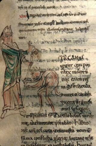 Page from the Twelve Books of Histories (Historiarum libri XII) by Freculf